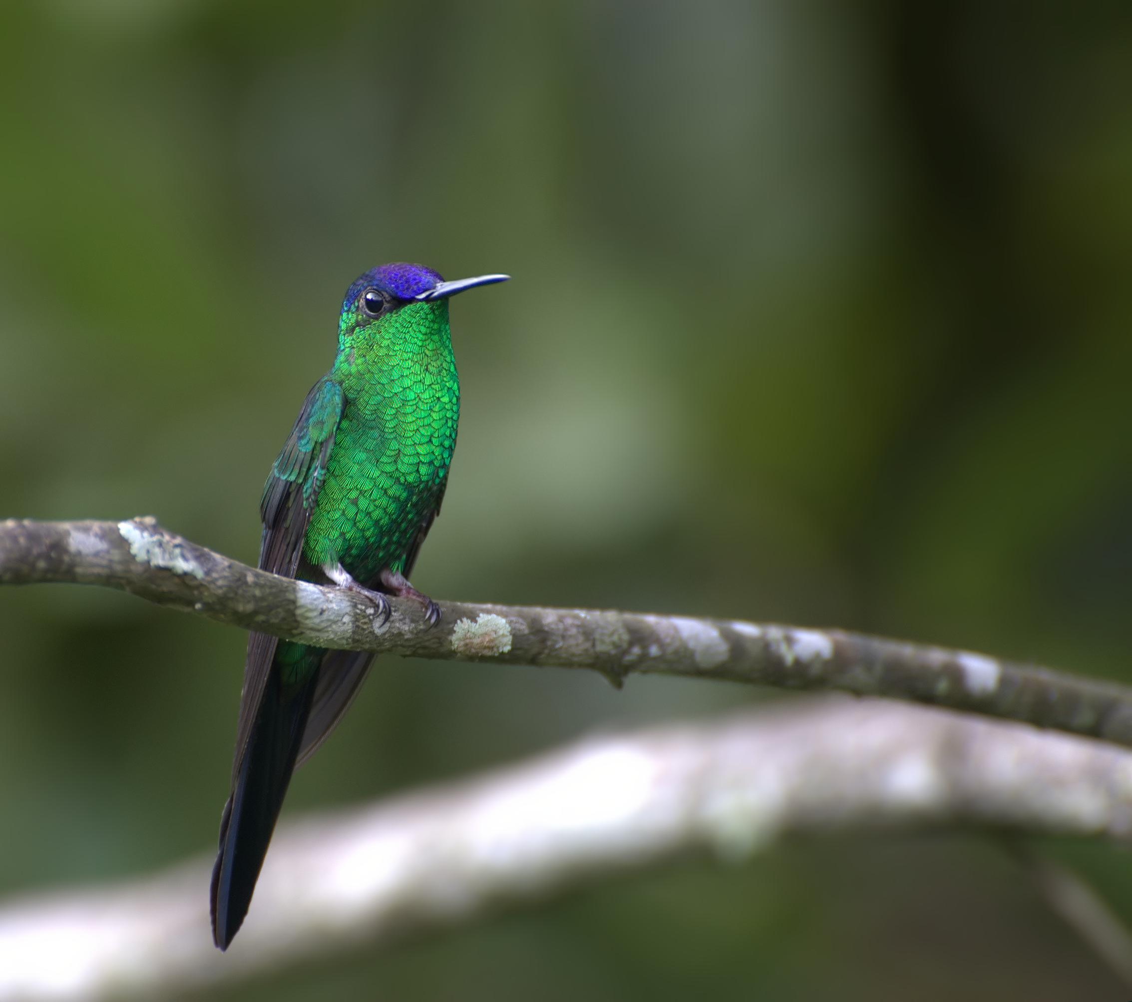 A male bird at Chácara Antonio Wuo, Mogi das Cruzes-SP (Brazil)